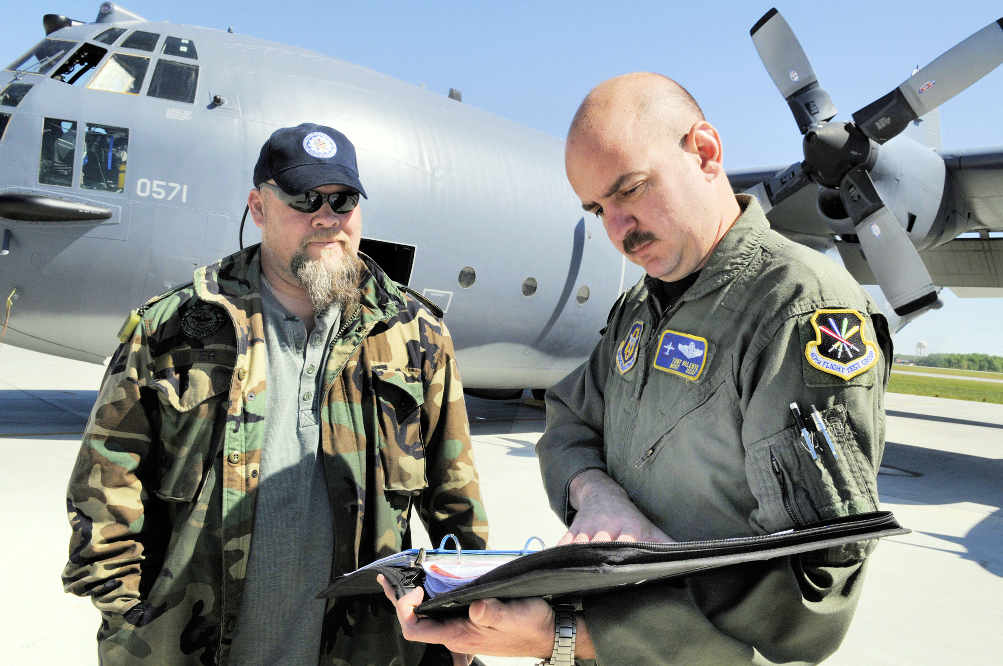 Eddie Minter, C-130 functional test work lead, mets with MSgt. Tony Valente, flight engineer to look over work records before a testflight of an MC-130E. U. S. Air Force photo by Sue Sapp